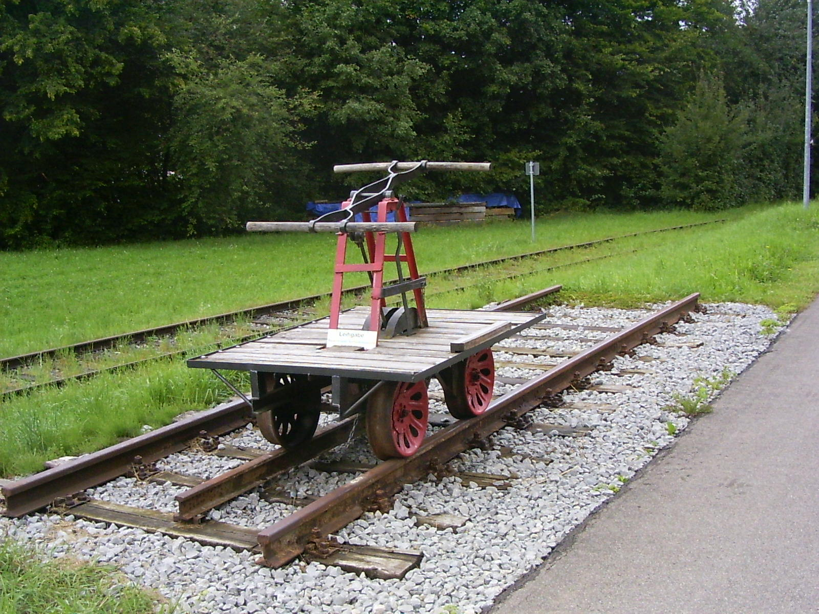 Draisine in Laufen/Kocher